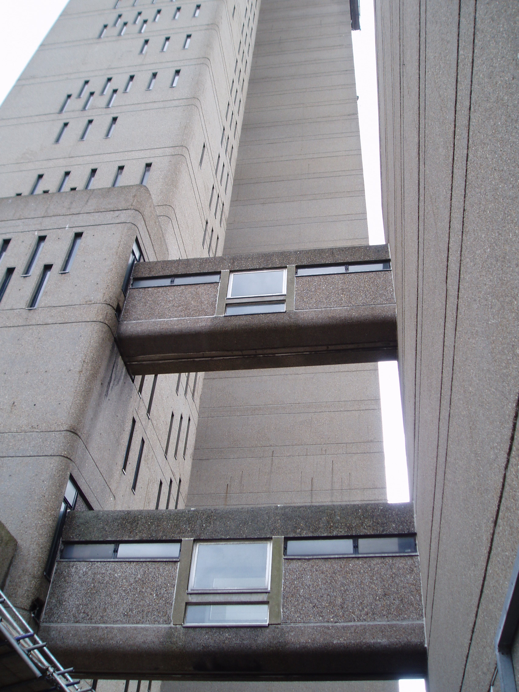 Trellick Tower